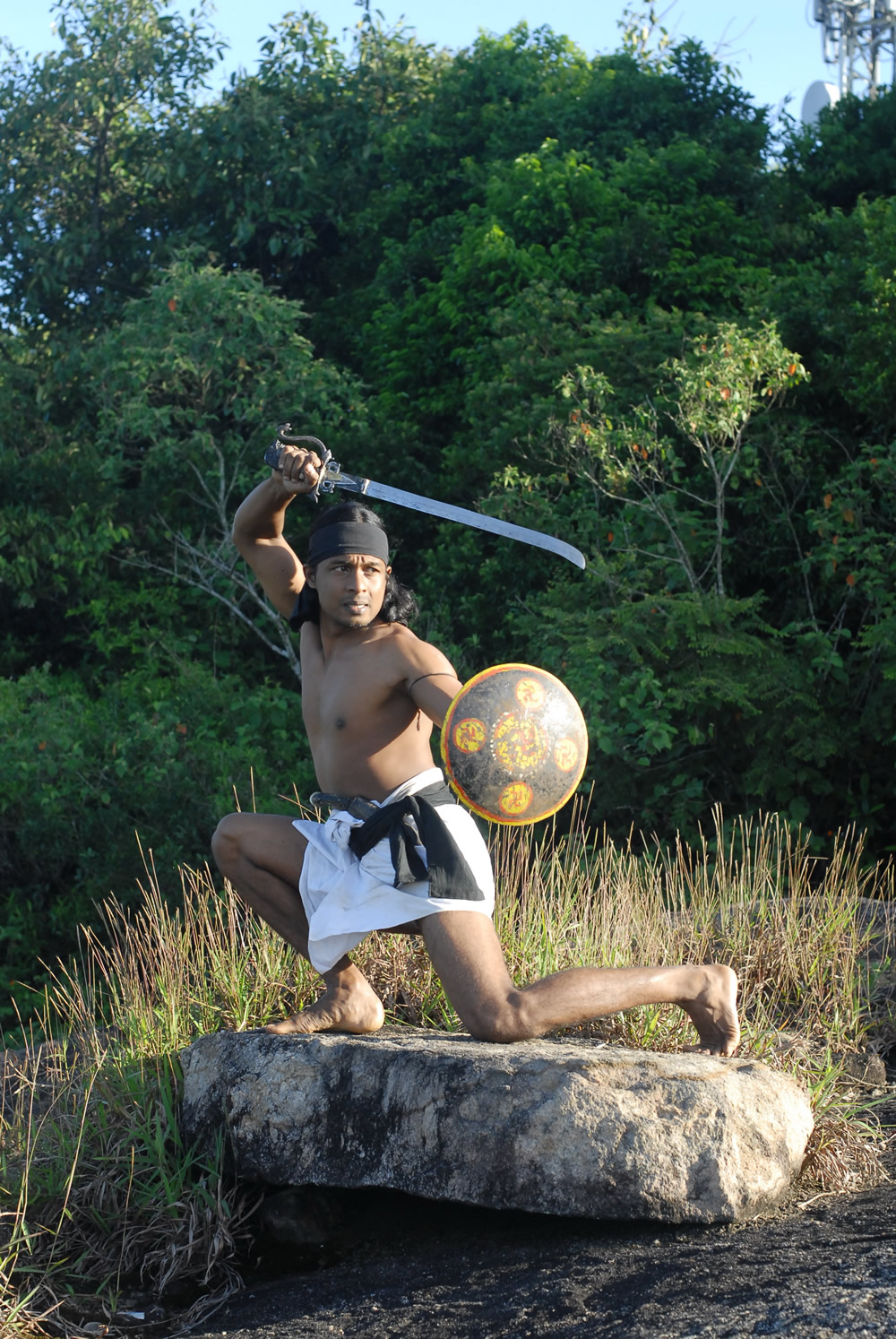 Ajantha Mahantharachchi with Sword and Shield showing ancient angampora techniques